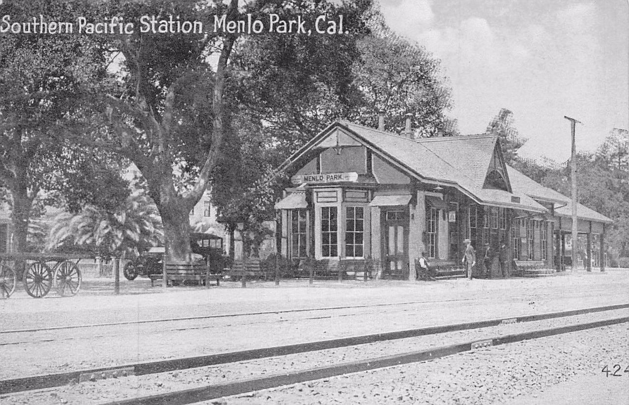 Early divided back postcard of Menlo Park station